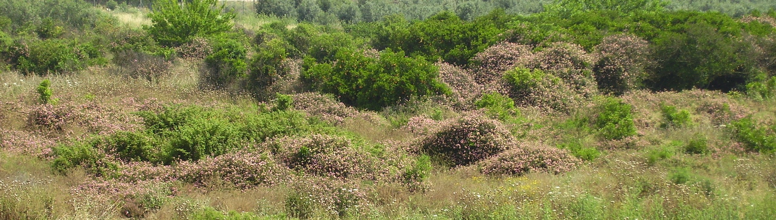 Lantana Invasion of abandoned citrus plantation; Moshav Sdey Hemed, Israel; May 2, 2006.